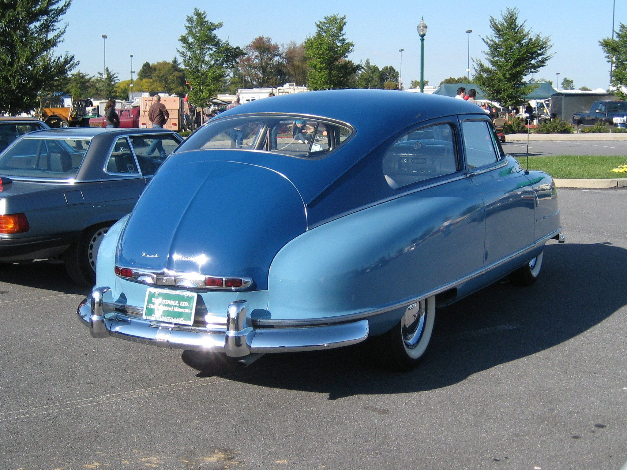 1950 Nash Statesman Super 2-door. I don't pay much attention to the prices on the windshield as I'm not in the market and I'm sure many sell for another price. By the end of the meet, many prices had been slashed several times.